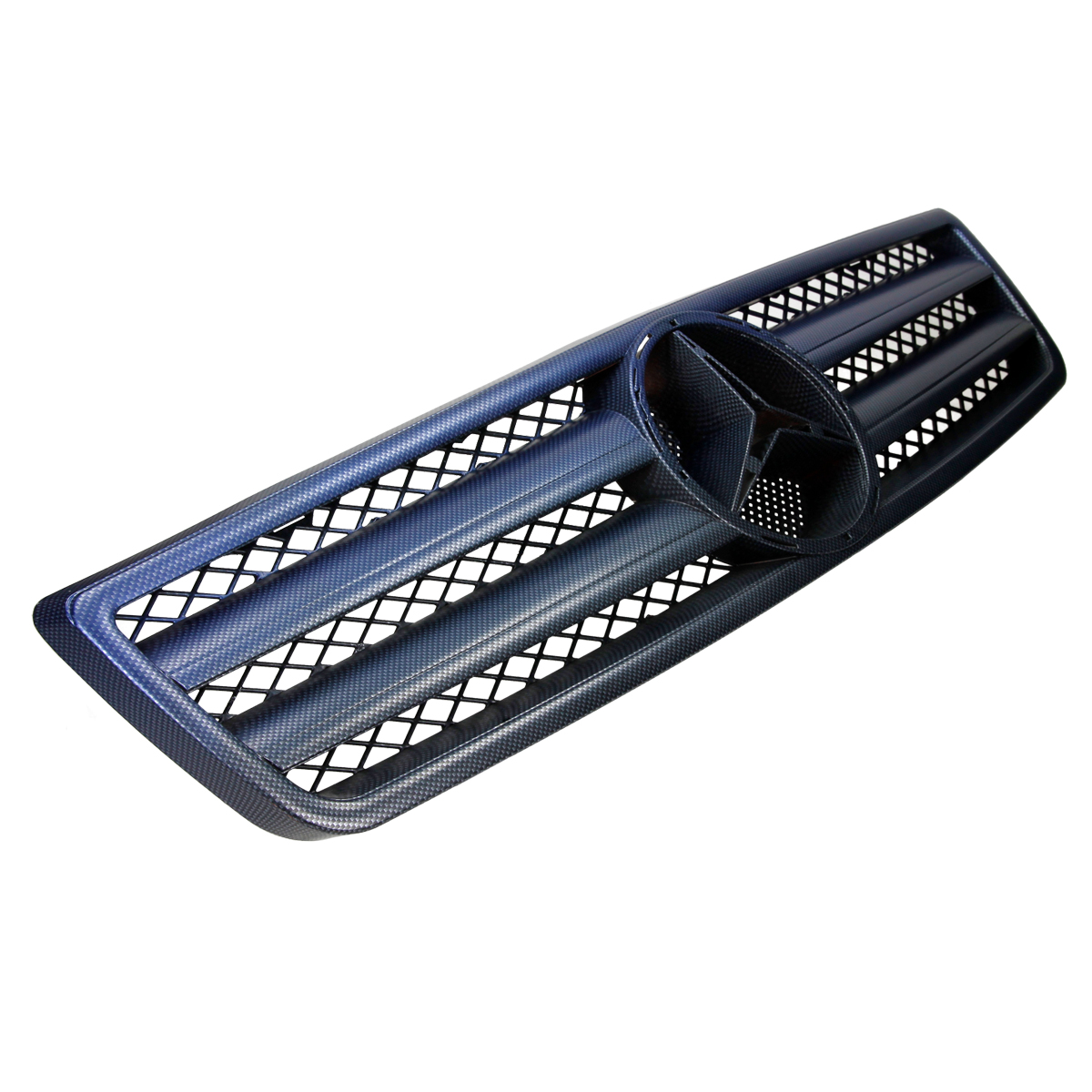 This car radiator grille has been refined by water transfer printing with a carbon film from Perfect Finish. It was previously primed with two different colors so that a gradient effect is created.